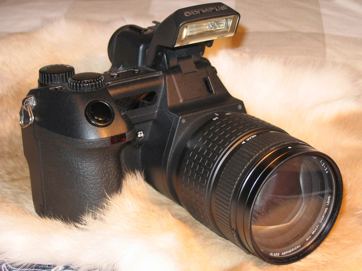 Olympus E-10 Author: Paul Lammertsma (User:Stimpy) Date taken: February 5, 2004 Used with permission.